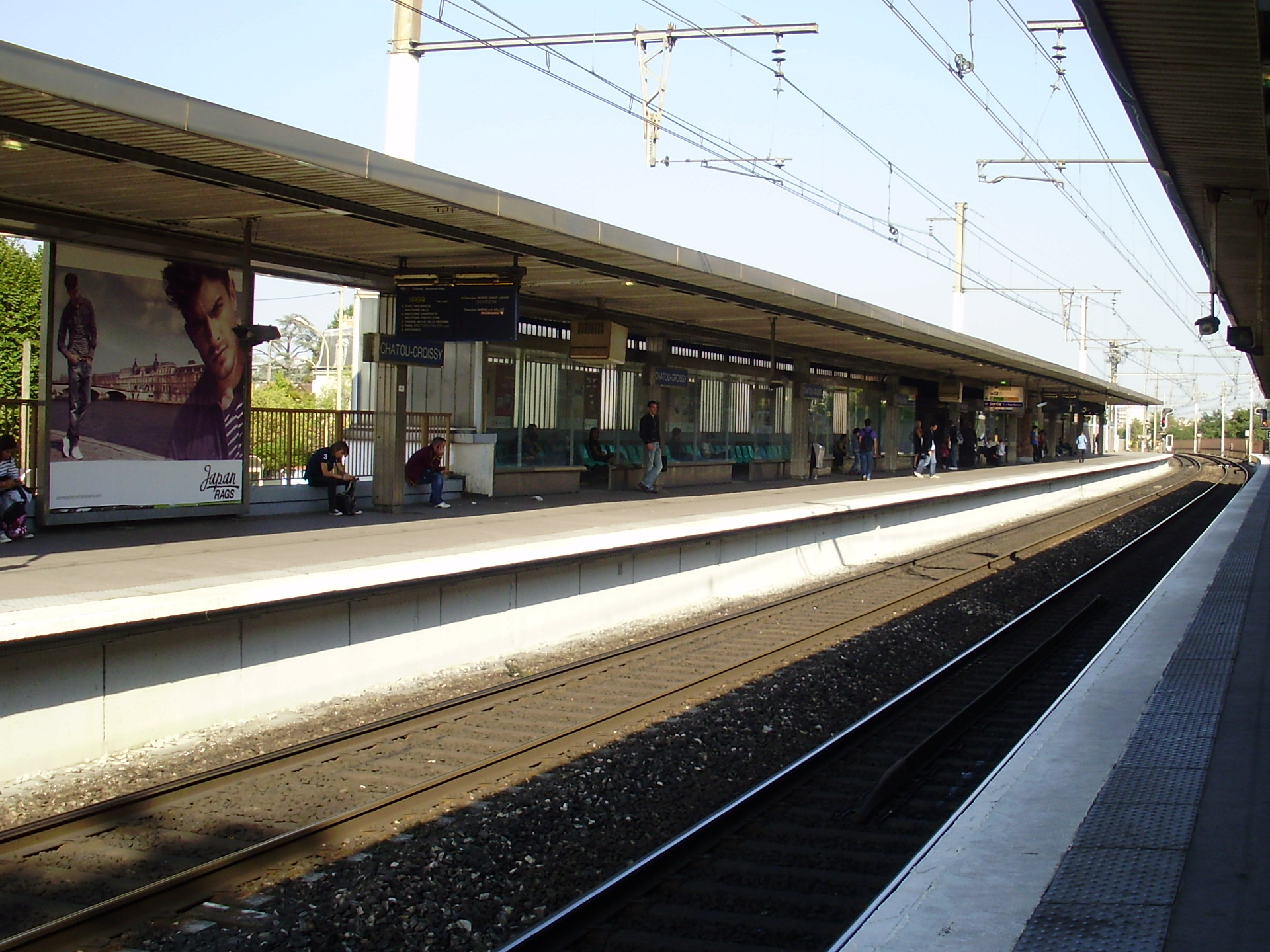 Chatou - Croissy station, in Chatou, Yvelines, France (view of the platform to Paris)